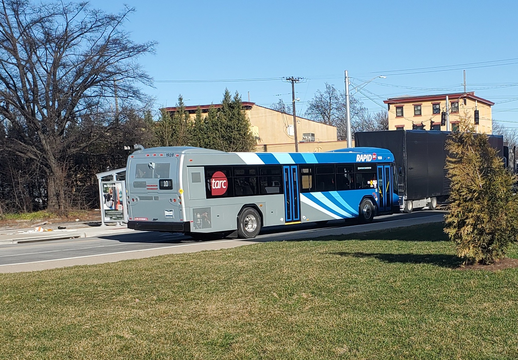 One of 9 buse on "The Rapod"